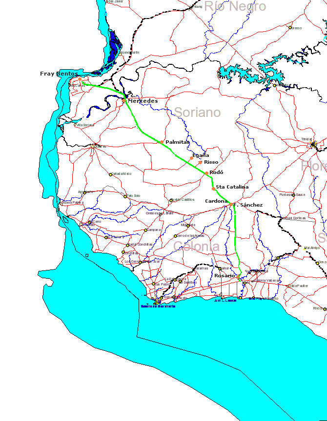 Trazado de la Ruta Nº2